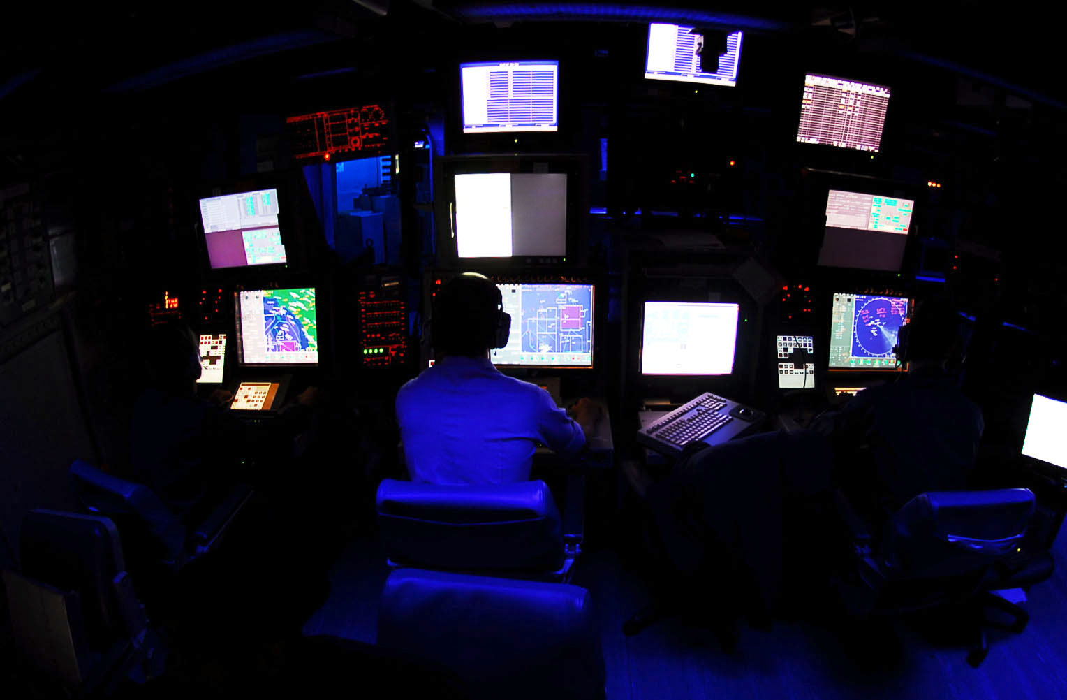 PACIFIC OCEAN (Oct. 24, 2008) Operations Specialist 3rd Class Keegan Wigger, from Olympia, Wash., monitors air radar contacts in the Combat Direction Center aboard the Nimitz-class aircraft carrier USS John C. Stennis (CVN 74). Stennis, as part of John C. Stennis Carrier Strike Group, is conducting a composite training unit exercise off the coast of Southern California. (U.S. Navy photo by Mass Communication Specialist Seaman Walter M. Wayman/Released)